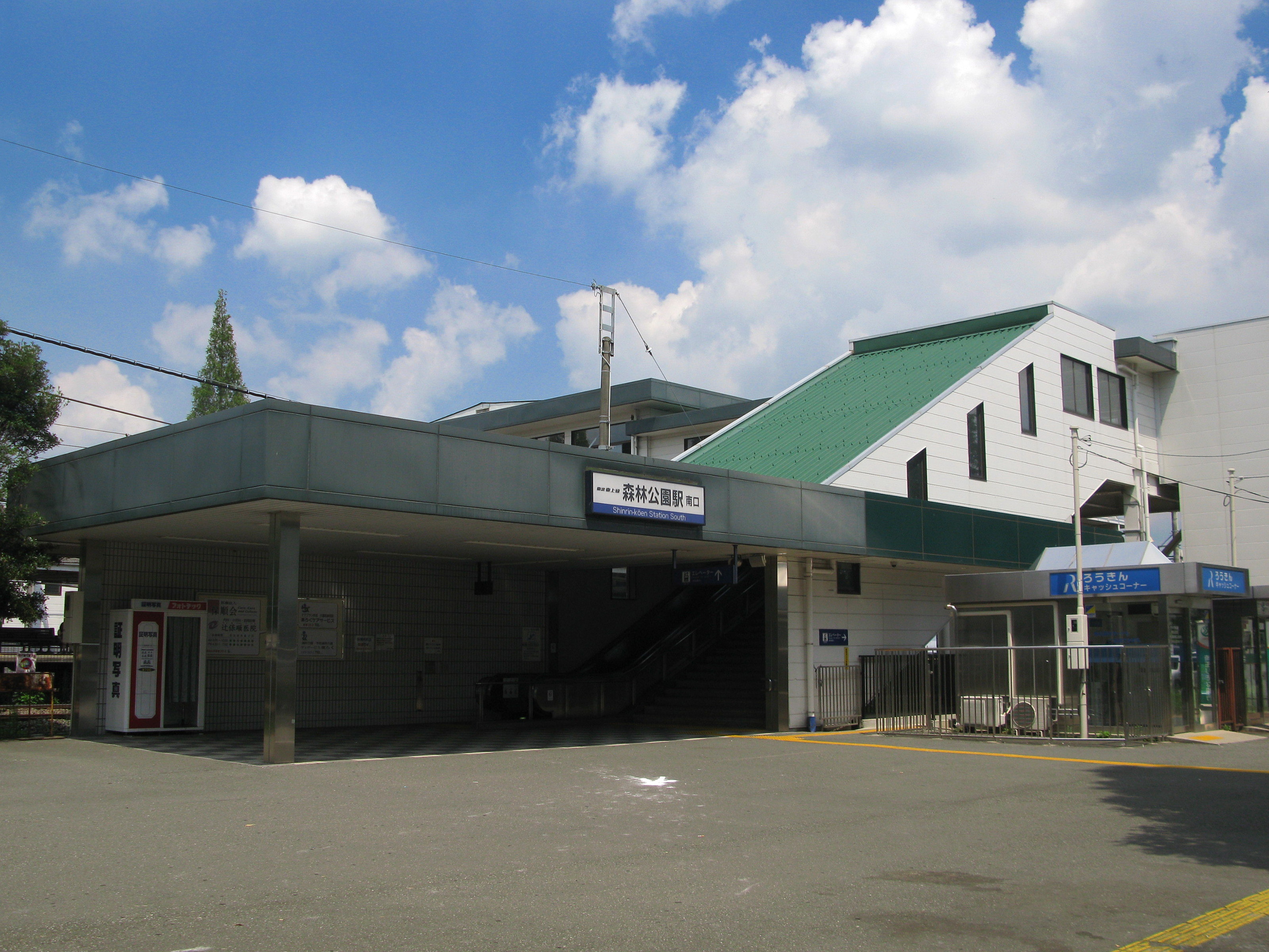 The south entrance of Shinrinkoen Station on the Tobu Tojo Line